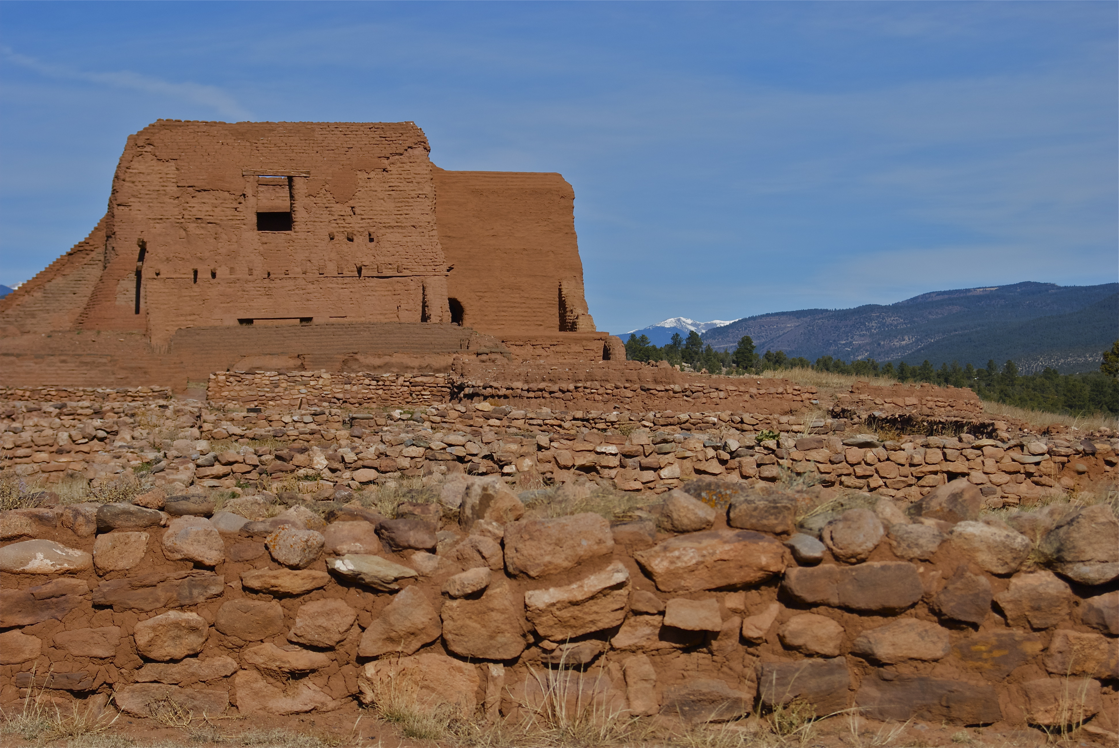 Salinas Pueblo Missions National Monument, 1 mile (1.6 km) east of Gran Quivira on State Road 10 Gran Quivira